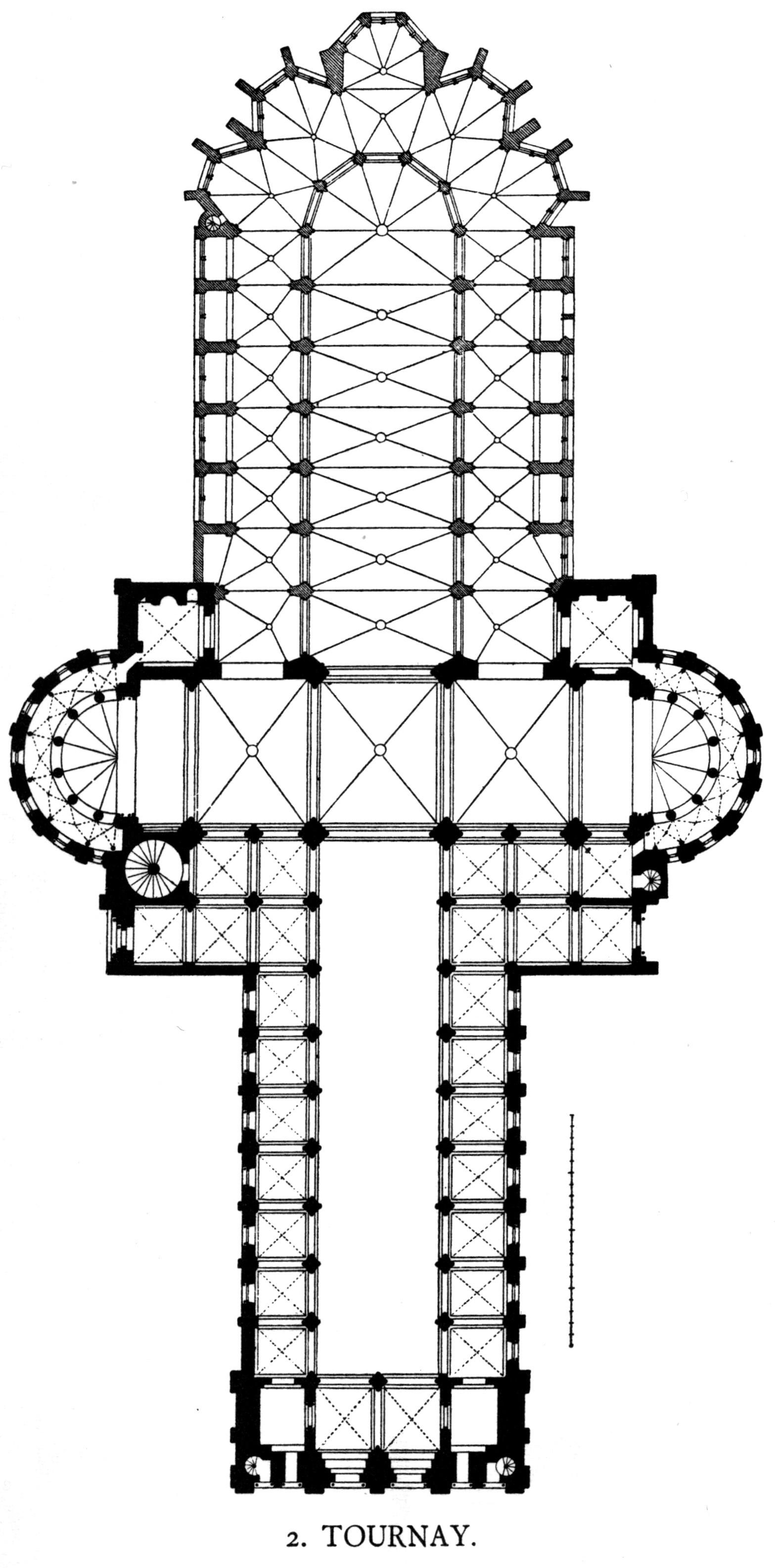 Notre-Dame Cathedral in Tournai, floor plan.